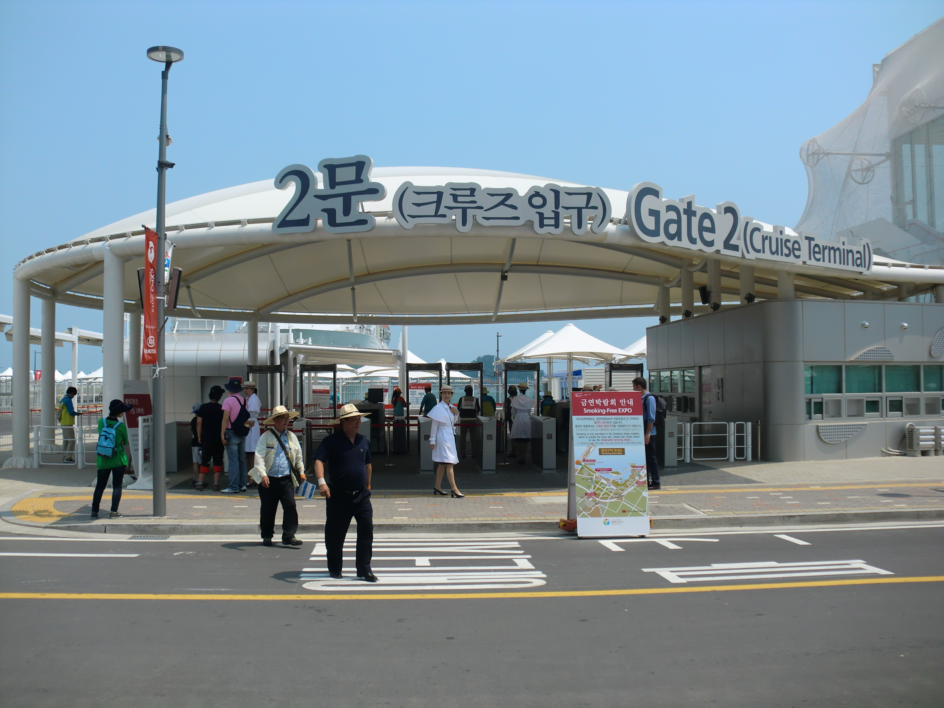 Expo 2012 Gate2